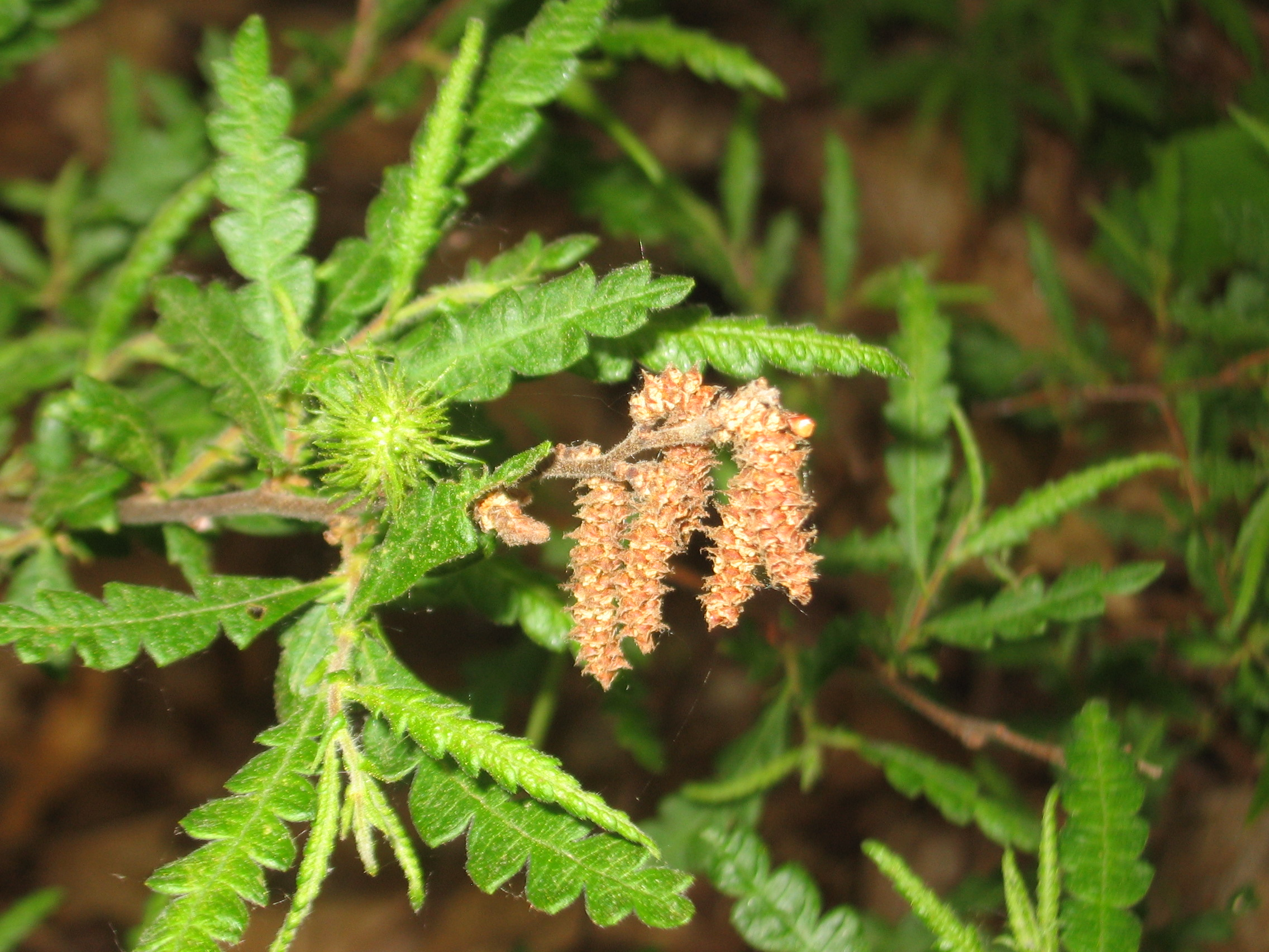 Photo of Comptonia peregrina showing foliage, male flowers, and female flowers.